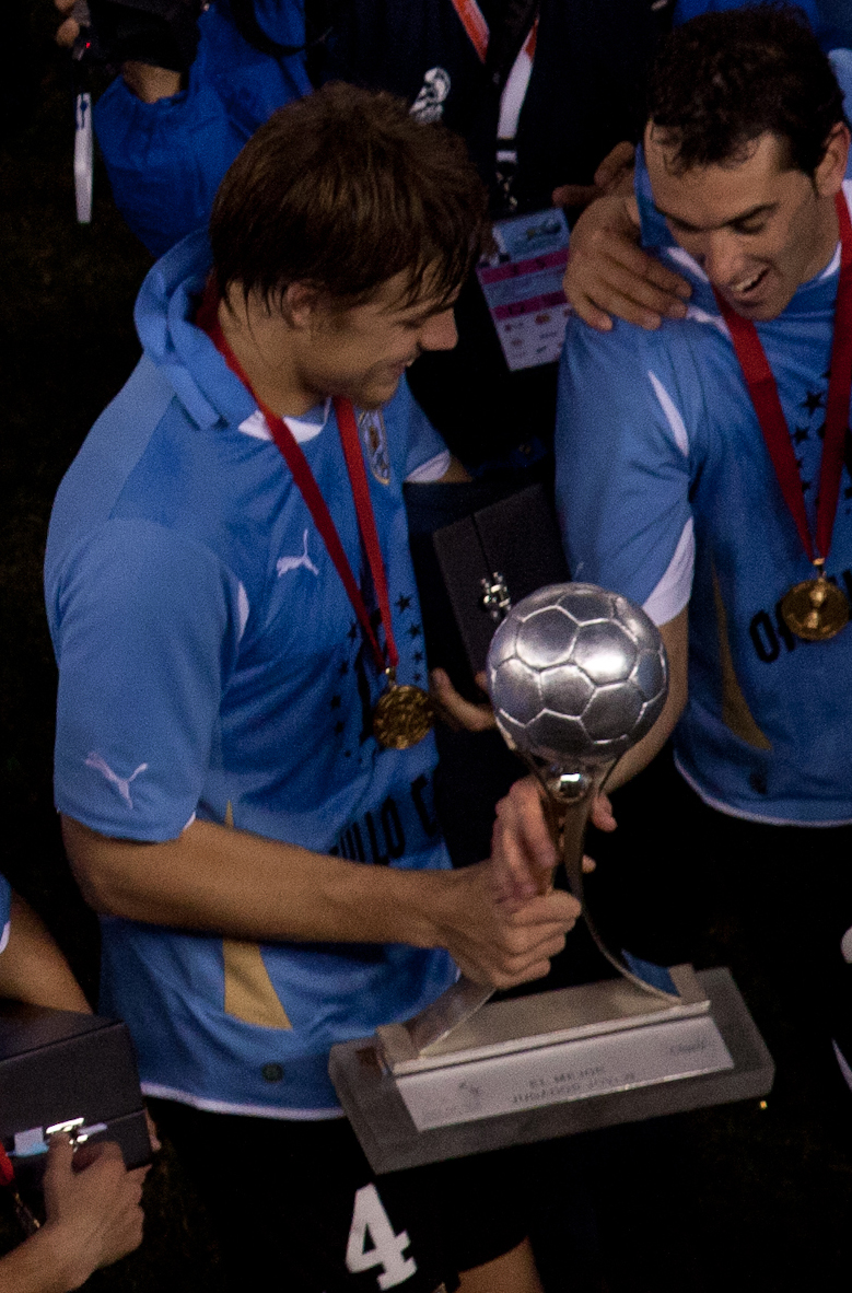 Sebastian Coates with award for Best Young Player of the Copa America